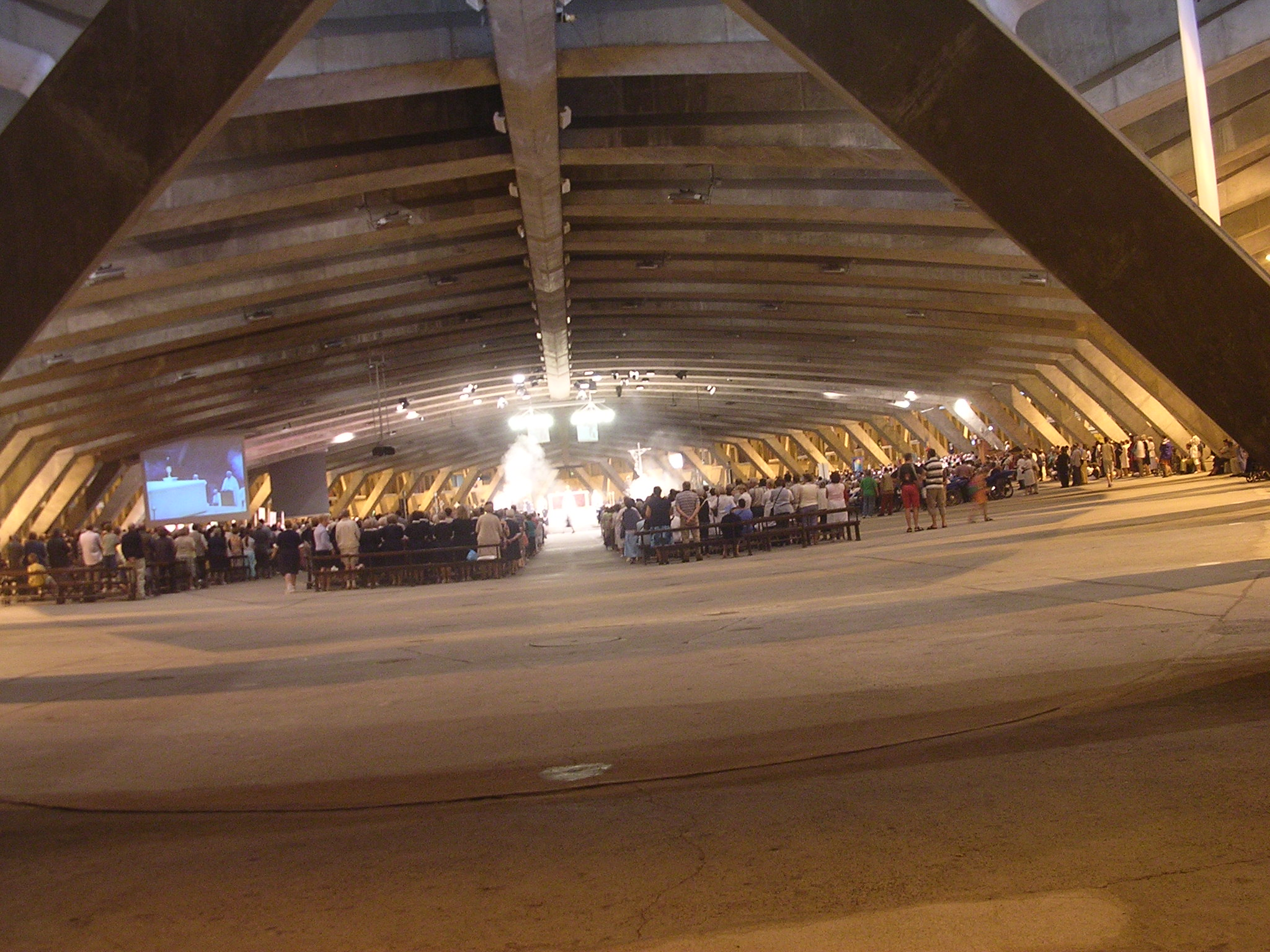 Lourdes, France